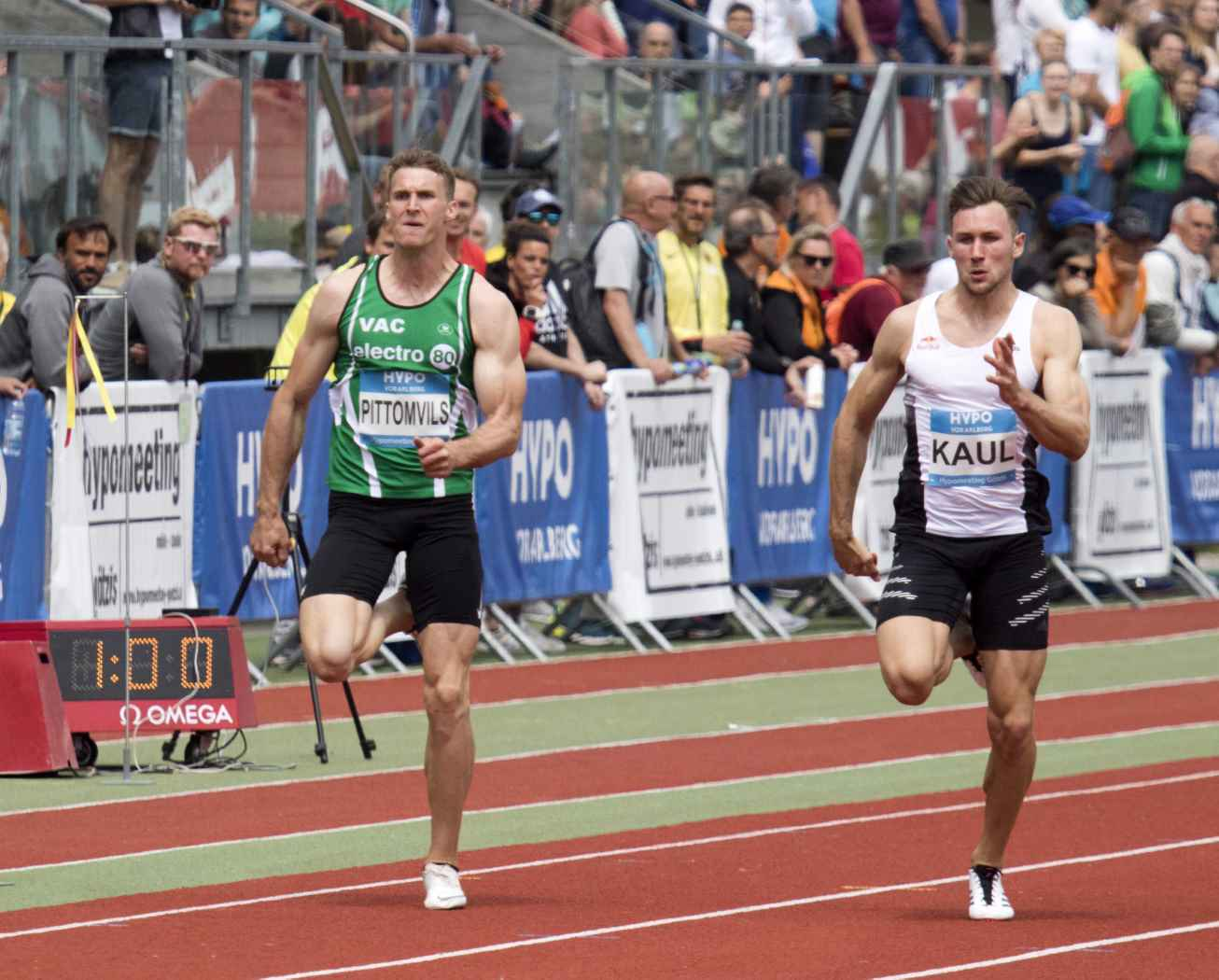 2019 Hypo-Meeting Götzis